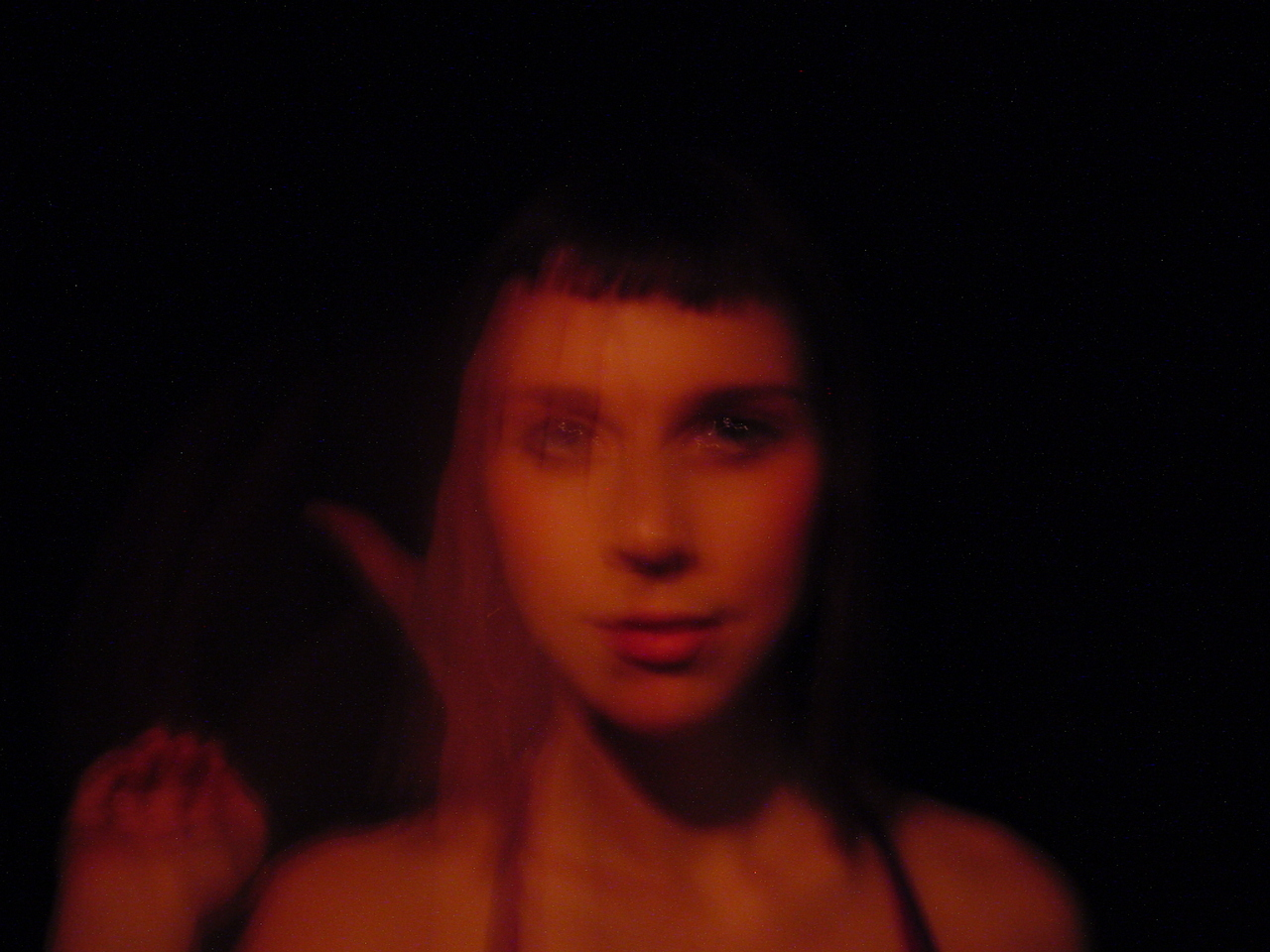 Nathalie Daoust portrait